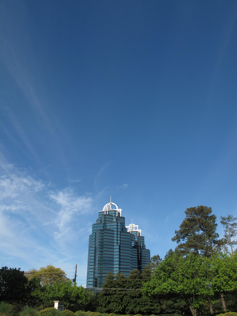 Office Buildings, Concourse at Landmark Center, Sandy Springs, Georgia